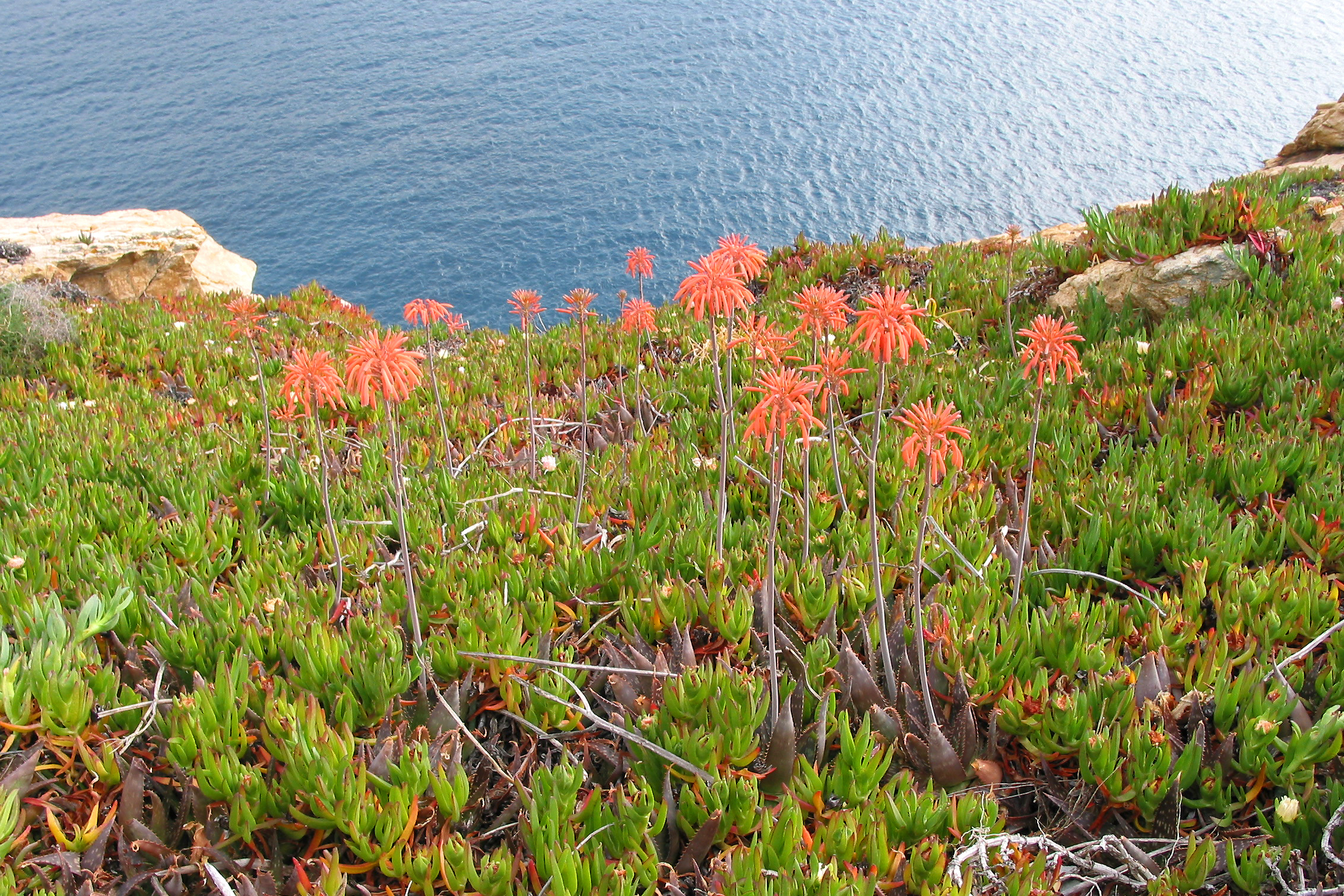 Field of Aloe maculata also known as Soap Aloe, Zebra Aloe or African Aloe - Habit: L'Île-Rousse ( Haute-Corse) - France. Walon: Tchamp d’ Aloès tchaborès (Aloe maculata) - Place: L'Île-Rousse (Ôte-Corse) - France.